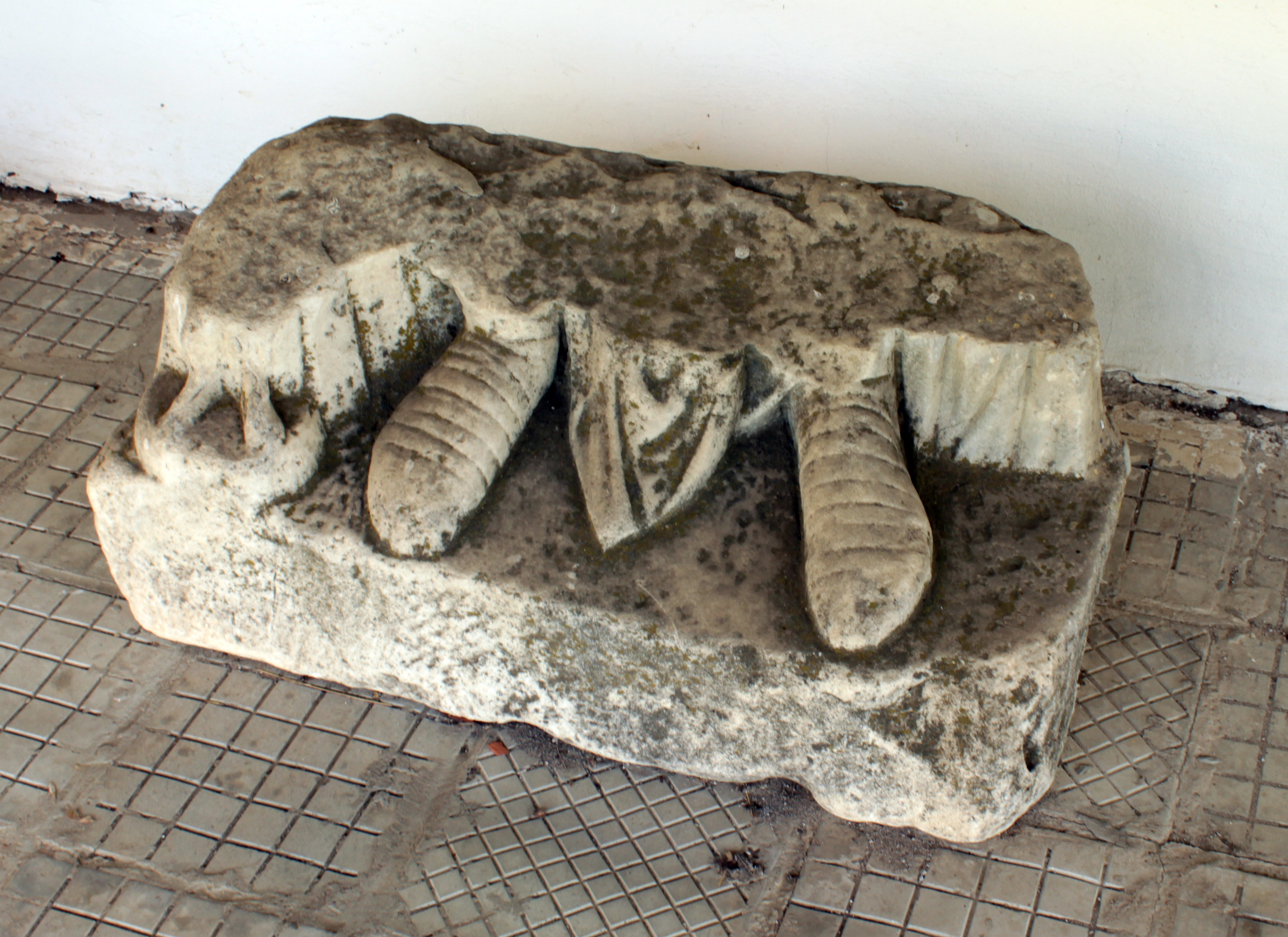 Ancient shoes from Oescus, contemporary Gigen.